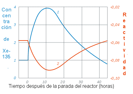 Iodine pit Graph of the concentration of xenon and the reactivity of the nuclear reactor after its shutdown